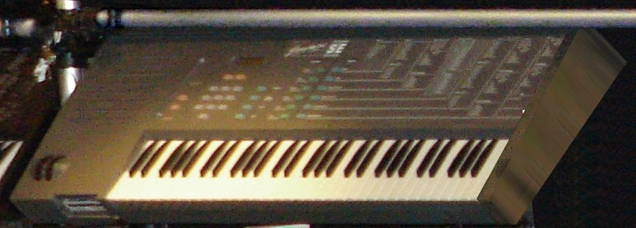 E-mu Emax SE (ca.1988) sampling keyboard with additive synthesis engine Shawn Rudiman's Studio, Pittsburgh, PA